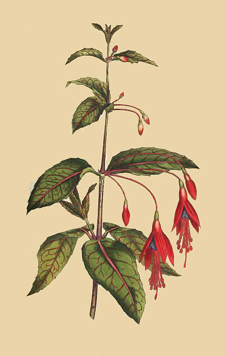 "Scarlet" fuchsia The image is from William Curtis' The Botanical Magazine, published in 1789. It was found on the USDA website. [1] (Very much in the public domain.) As of the publish date of the magazine the plant was called Fuchsia coccinea; the modern taxonomy is Fuchsia magellanica macrostema.